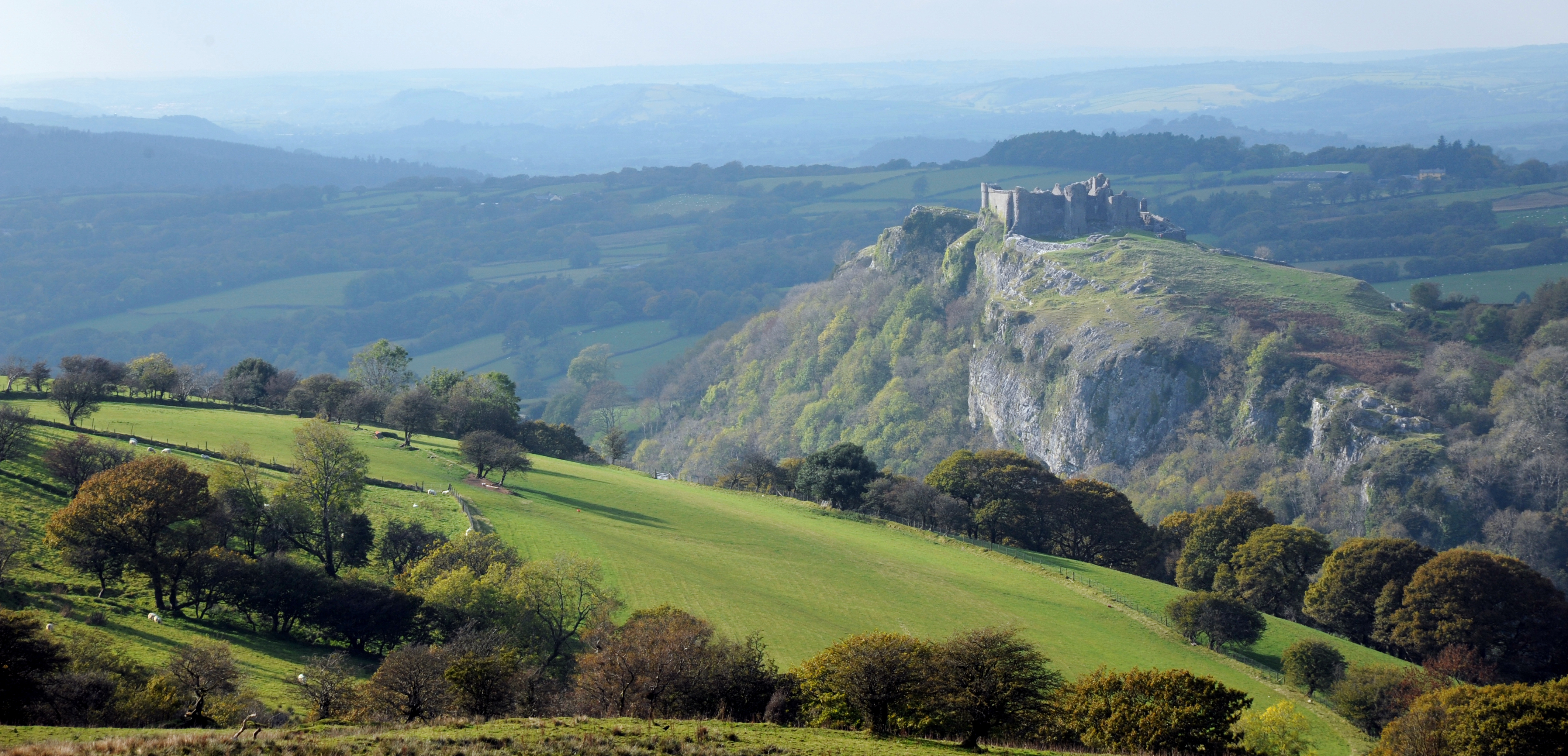 Carreg Cennen Castle Wikidata has entry Q3403691 with data related to this item.